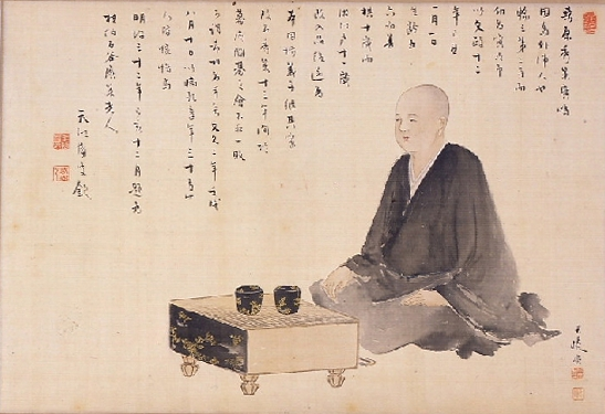 Cropped version of portrait of Honinbo Shusaku by Tenko Ema.